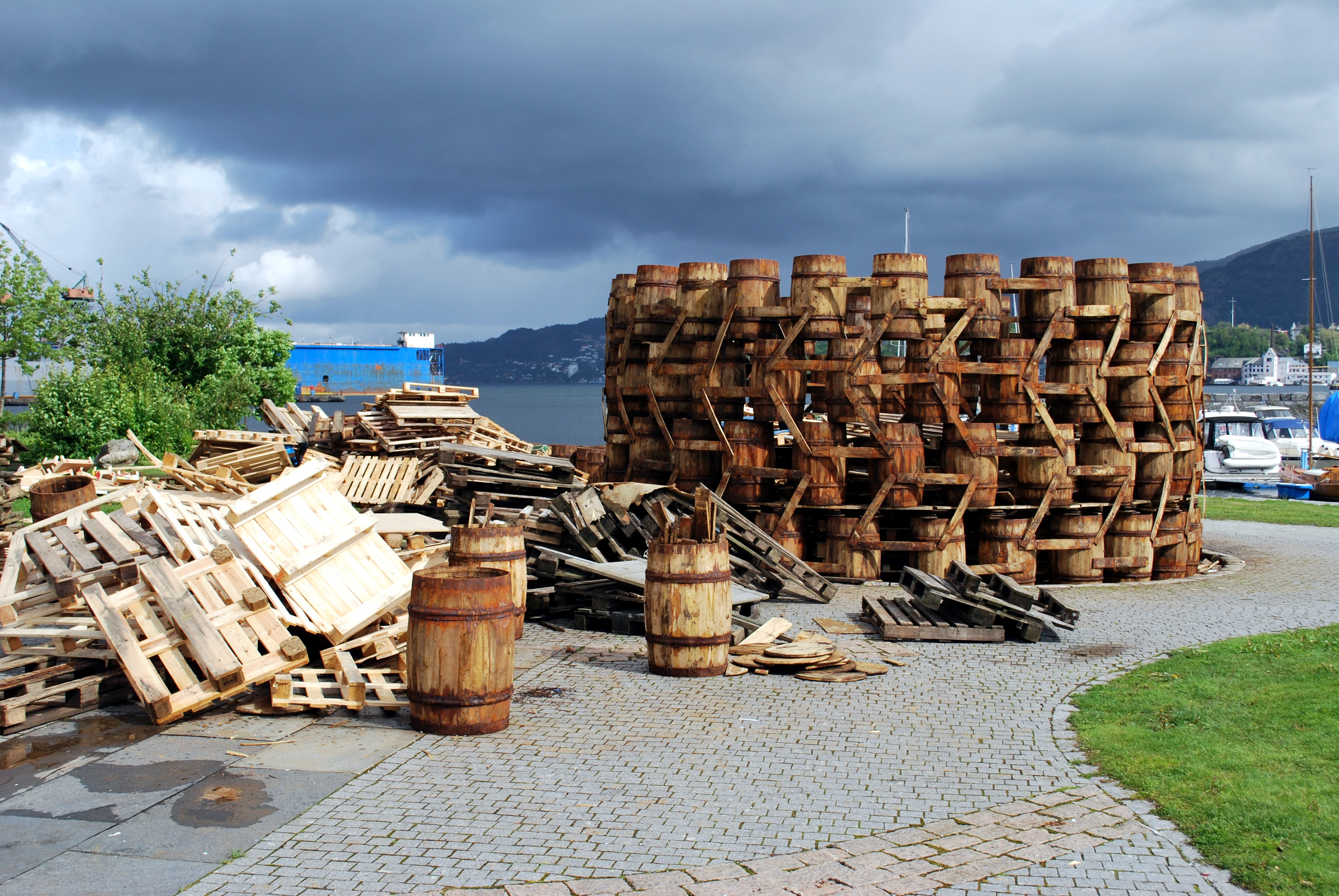 Midsummer bonfire at Laksevåg in Bergen, early stage.